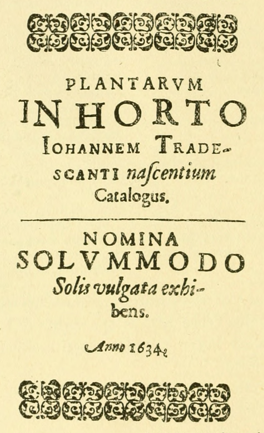 John Tradescant the Elder: Plantarum in horto Johannem Tradescanti nascentium catalogus, London 1634, title page